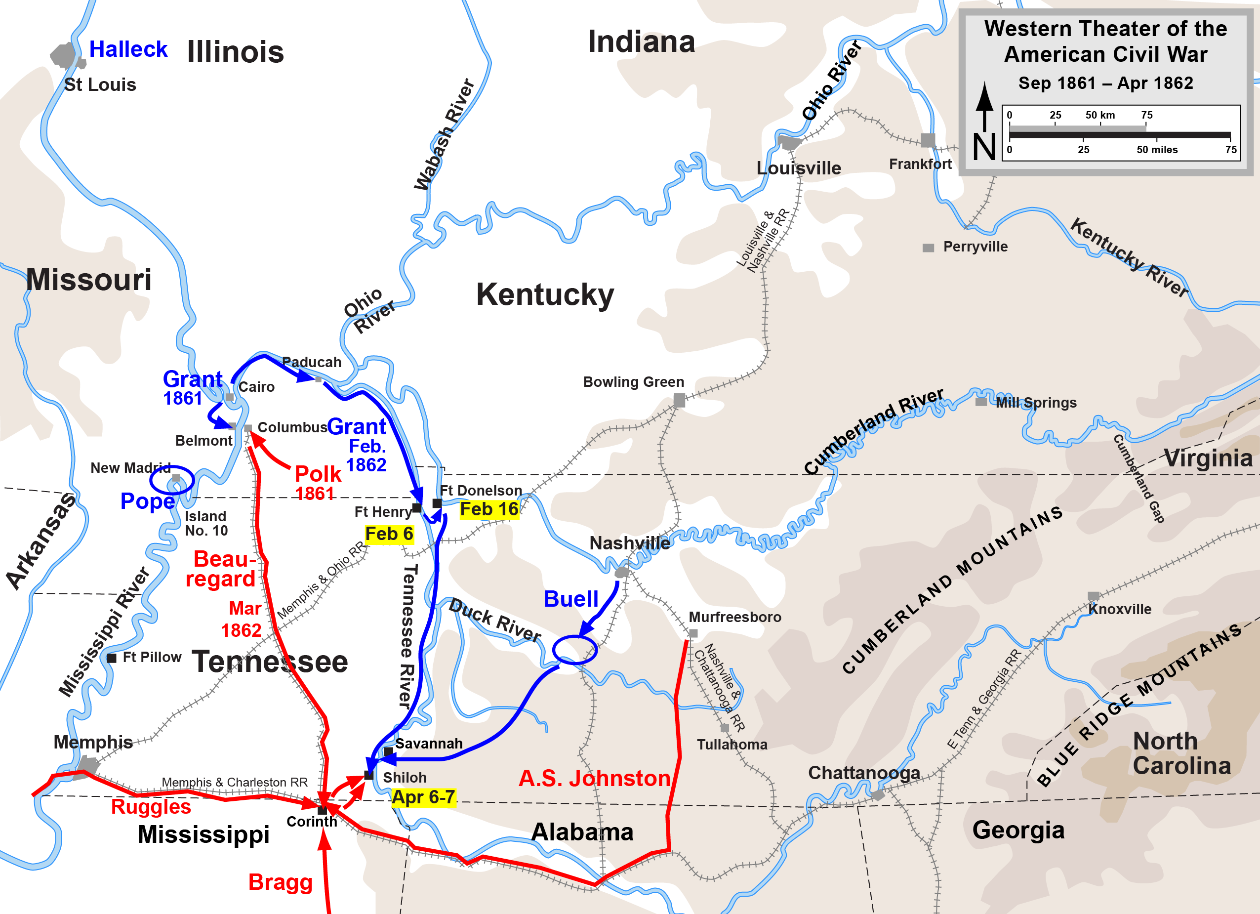 Map of the Western Theater of the American Civil War, actions from Belmont to Shiloh. Drawn by Hal Jespersen in Adobe Illustrator CS5. Graphic source file is available at